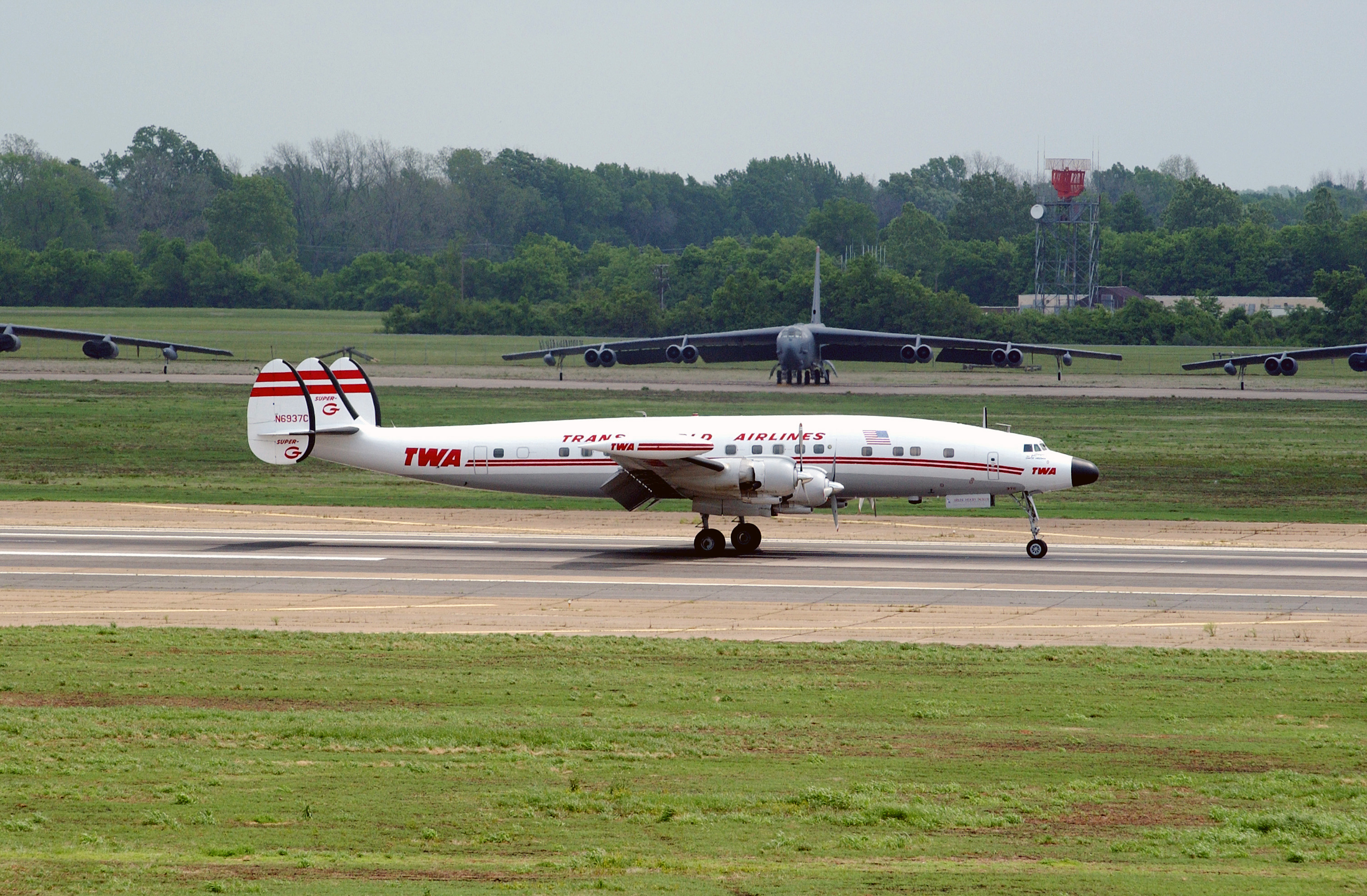 A Lockheed L1049H Constellation (N6937C, c/n 1049H-4830) historic airliner aircraft taxies on the runway at Barksdale Air Force Base, Louisiana (USA), showcasing a bygone era in civilian passenger air service, during an Open House and Air Show, held on-base. Visible in the background are U.S. Air Force B-52H Stratofortress aircraft, which were rolling from the assembly line, around the time the four engine propeller driven airliner was being retired.